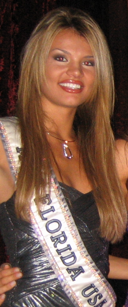 Jessica Rafalowski, Miss Florida USA 2008, attends a sponsor party at the Sedona lounge in Las Vegas, Nevada prior to the Miss USA 2008 pageant.